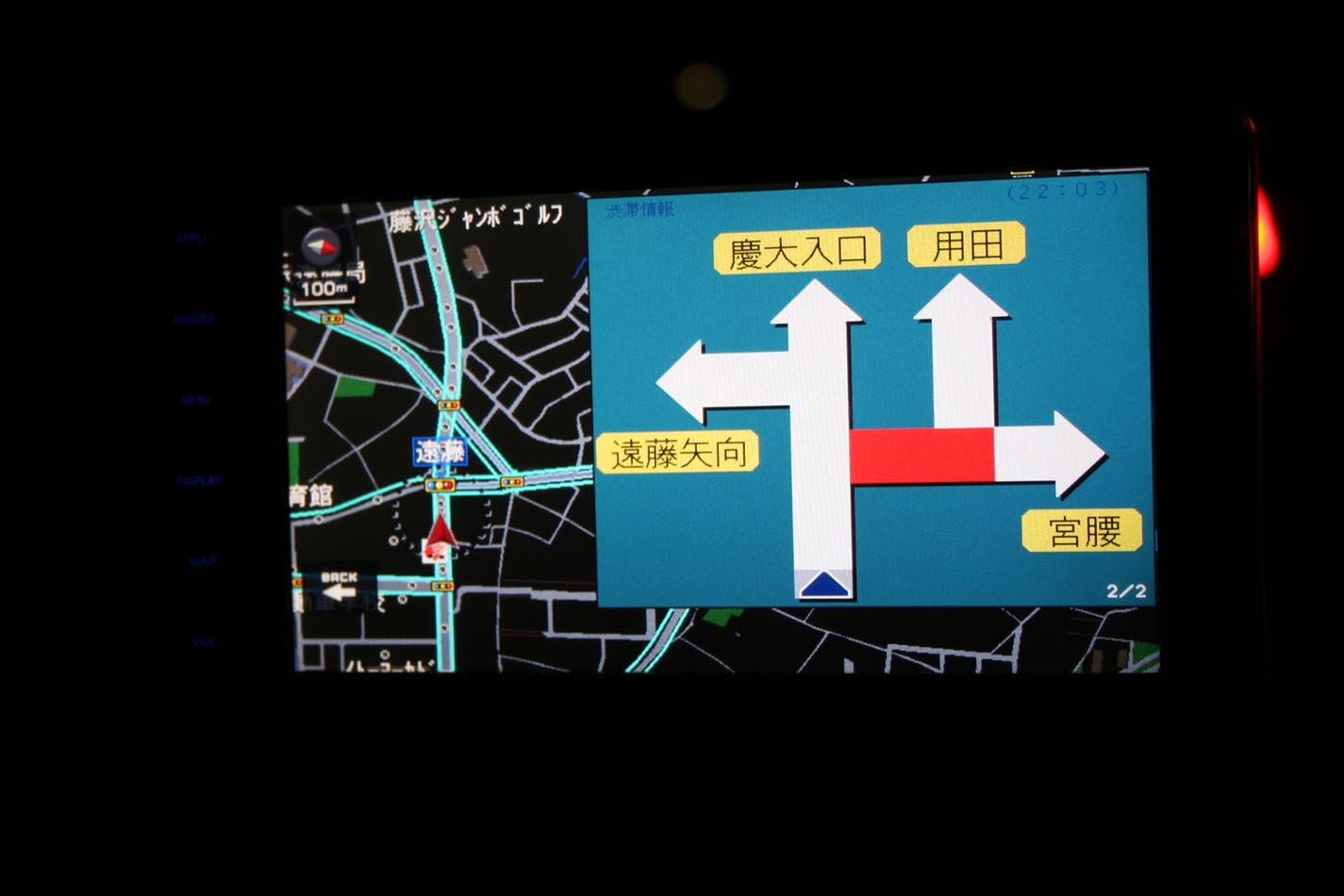 VICS traffic information popup